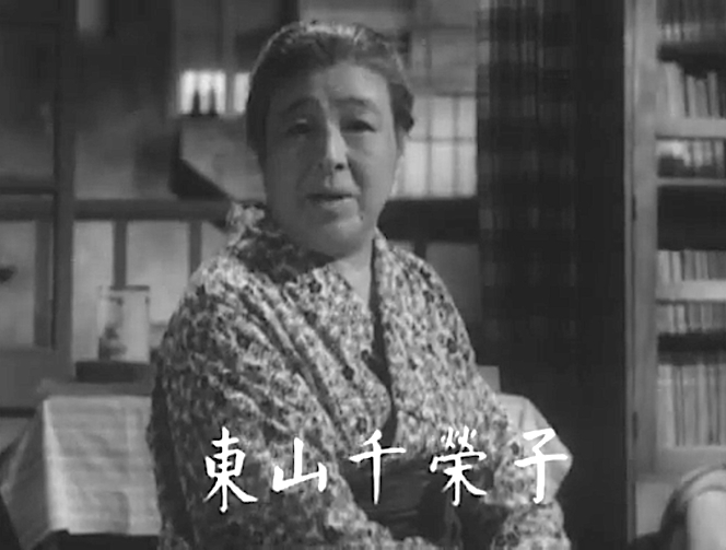 Chieko Higashiyama (1890–1980, 東山千栄子) in the 1953 Japanese film Tokyo Story (東京物語, Tōkyō Monogatari).